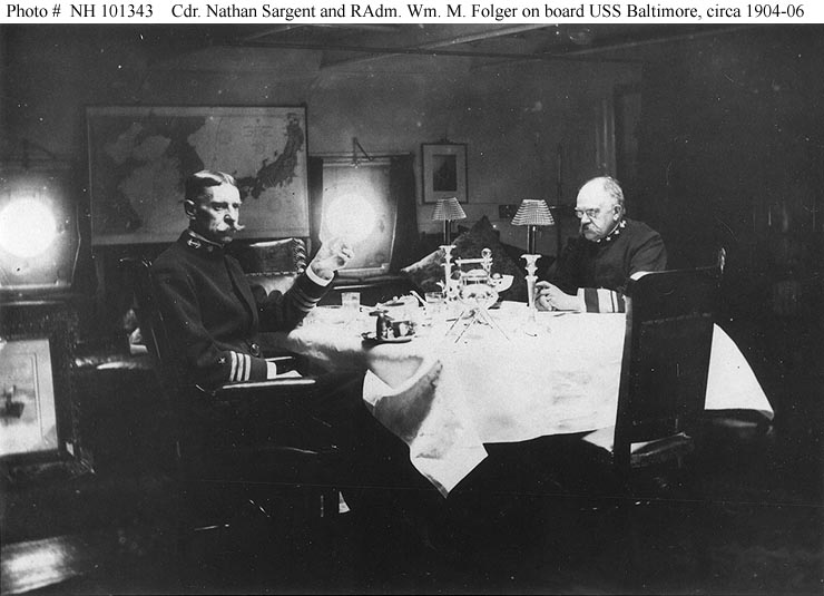 United States Navy Commander Nathan Sargent (left), ships commanding officer, and Rear Admiral William M. Folger, Commander Cruiser Squadron, United States Asiatic Fleet, in the flag cabin aboard the protected cruiser circa 1904-1905. A map of Japan, Korea, and the Yellow Sea is on the bulkhead behind them.